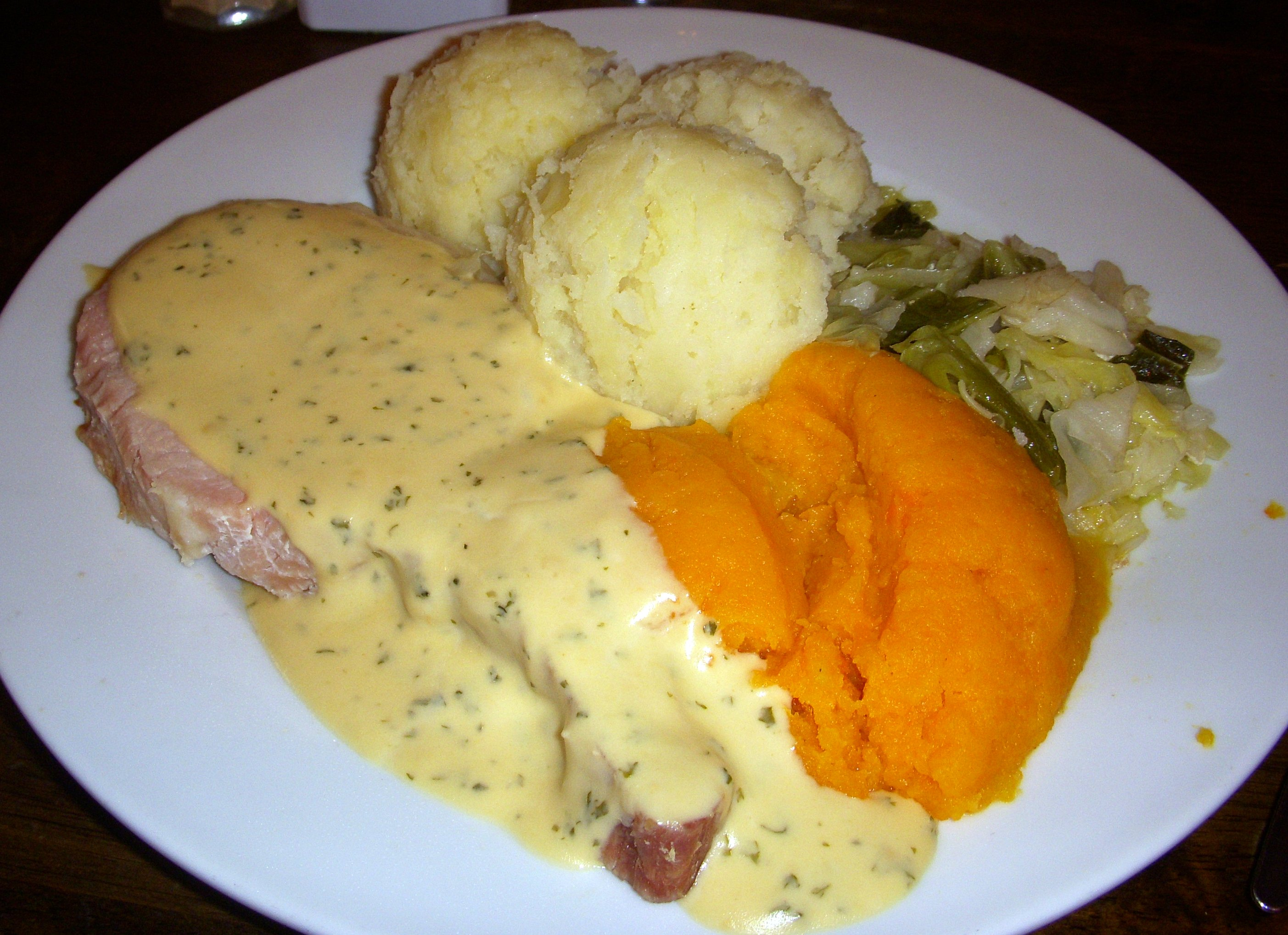 Bacon and cabbage.